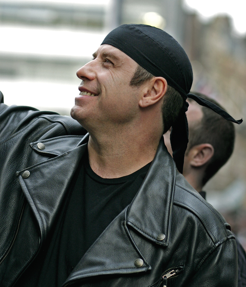 John Travolta at the Wild Hogs London premiere